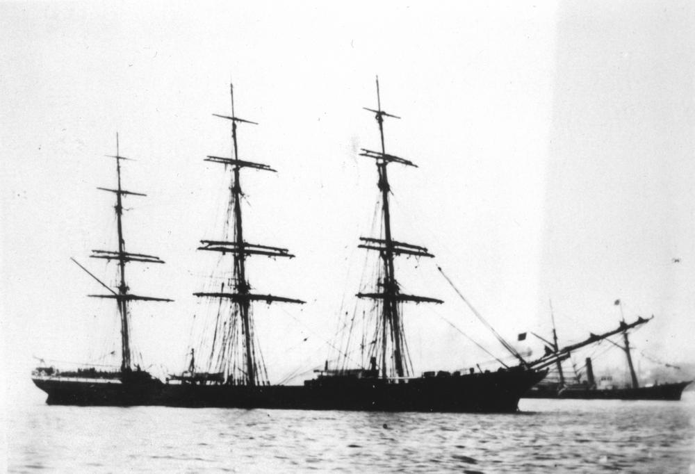 Star of Bengal (ship) Ship: Star of Bengal Rig: Three-masted bark Hull: Iron Launched: 1874 Out of service: 1908 Builder: Harland & Wolff, Belfast Dimensions: 262.8’ x 40.2’ x 23.5’ Tonnage: 1694 tons [1] ↑ Dyal, Donald H (2008). Alaska Packers Association: Narrative. .pdf file. Texas Tech University Digital Collections. Retrieved on March 15, 2011.